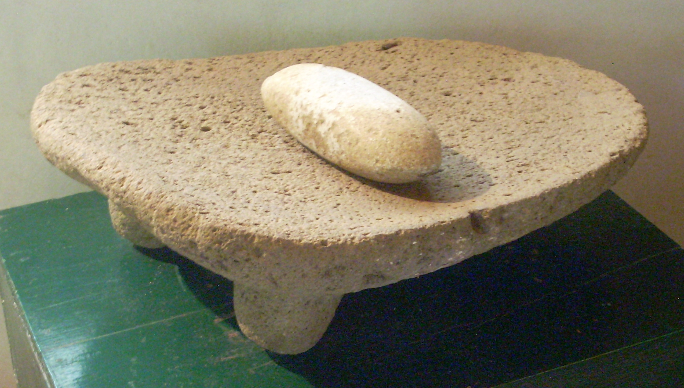 Milling stone (metate) from Takalik Abaj, Retalhuleu, Guatemala.